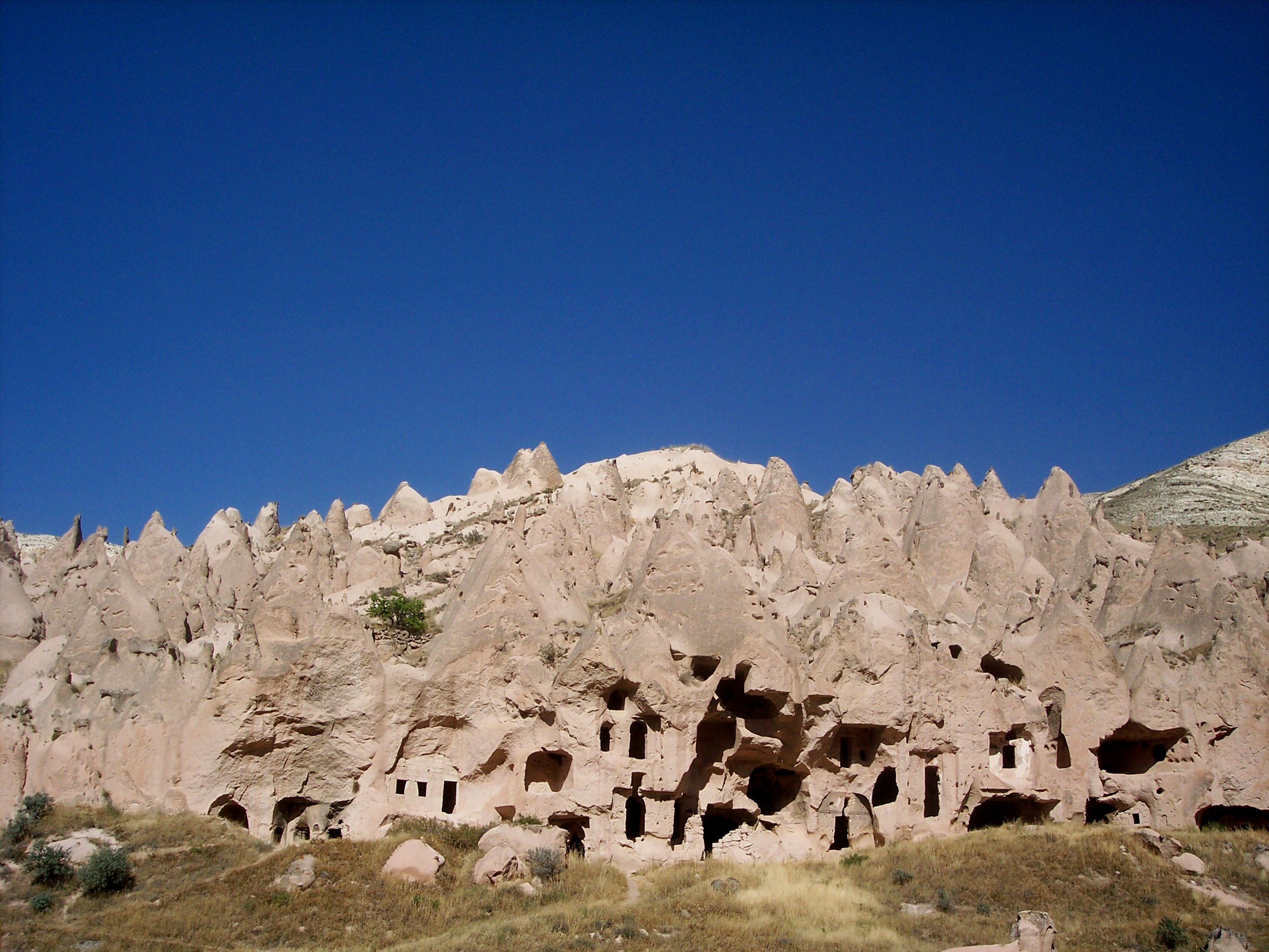 Rock formation in Zelve/Cappadocia in modern-day Turkey.